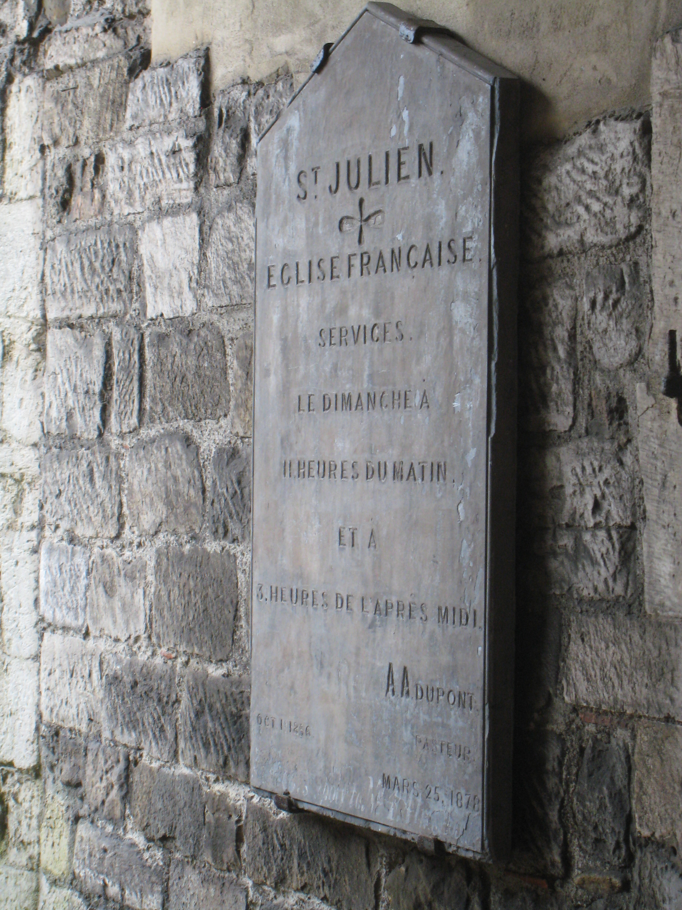 Sign on the former St Julien's church, Winkle Street, Southampton, Hampshire